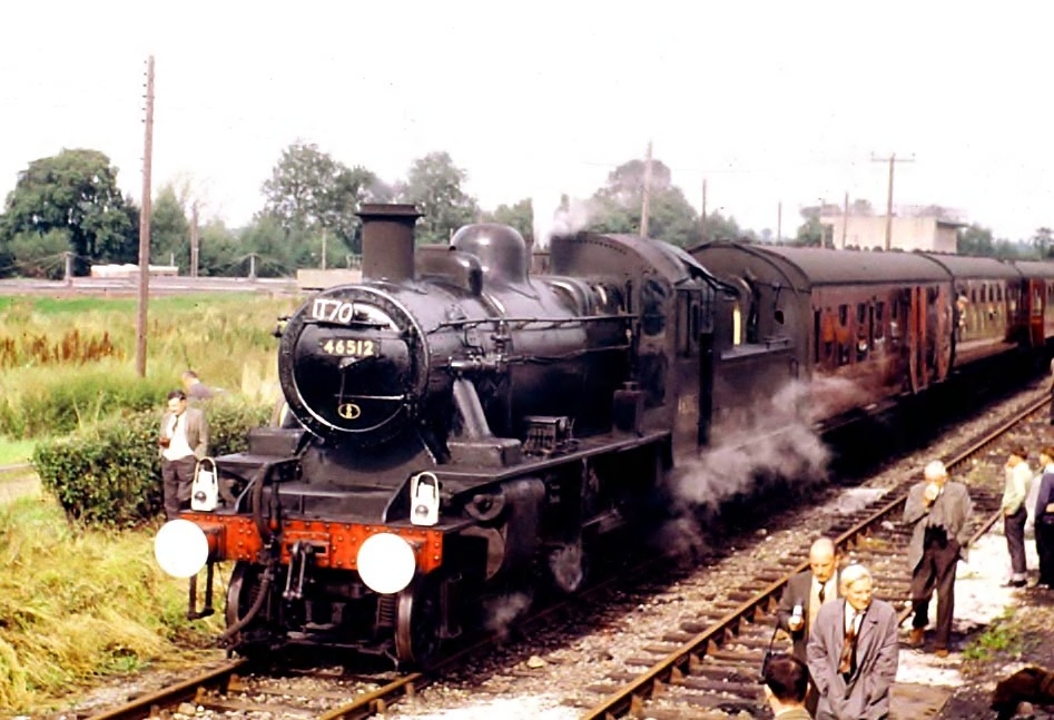 A railway enthusiasts' special train at the branch terminal at Minsterley. The branch had been closed to passenger traffic for many years. The line was closed entirely in the mid 1960s.